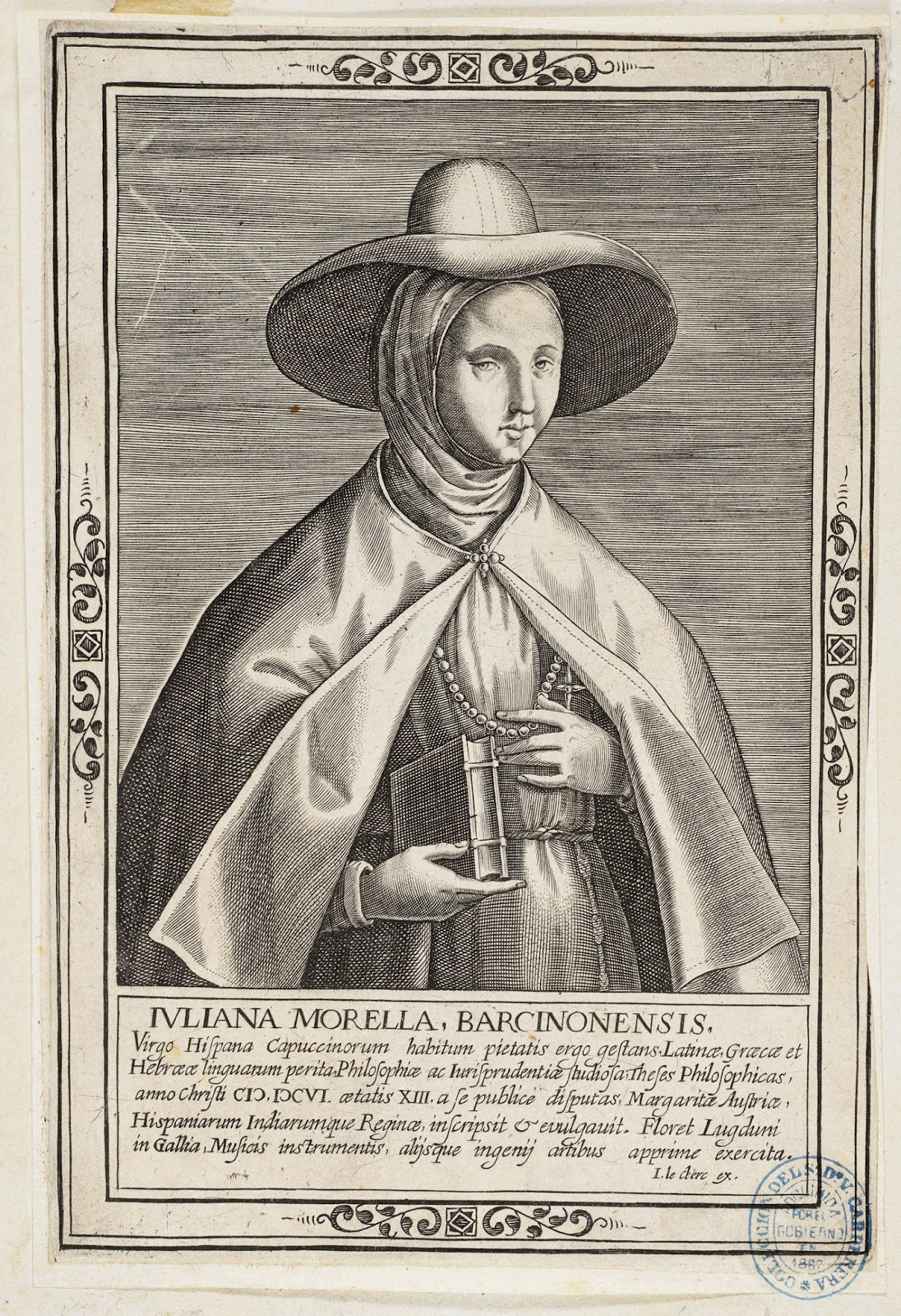 Juliana Morell (16 February 1594 – 26 June 1653) was a Spanish Dominican nun, and the first woman to receive a Doctor of Laws degree. Guess at date of production at 1800